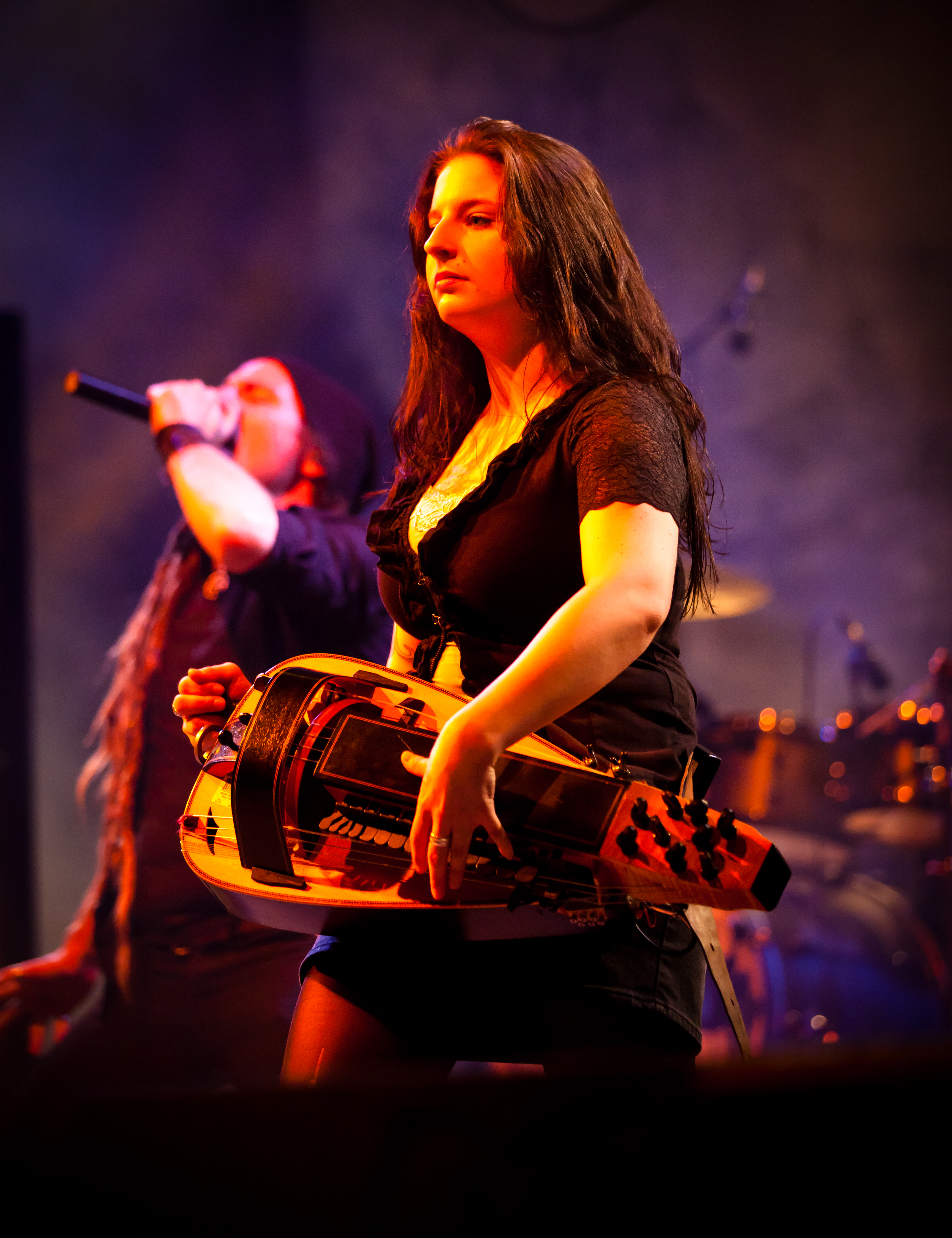 Anna Murphy of Eluveitie live at the Wave Gotik Treffen 2011